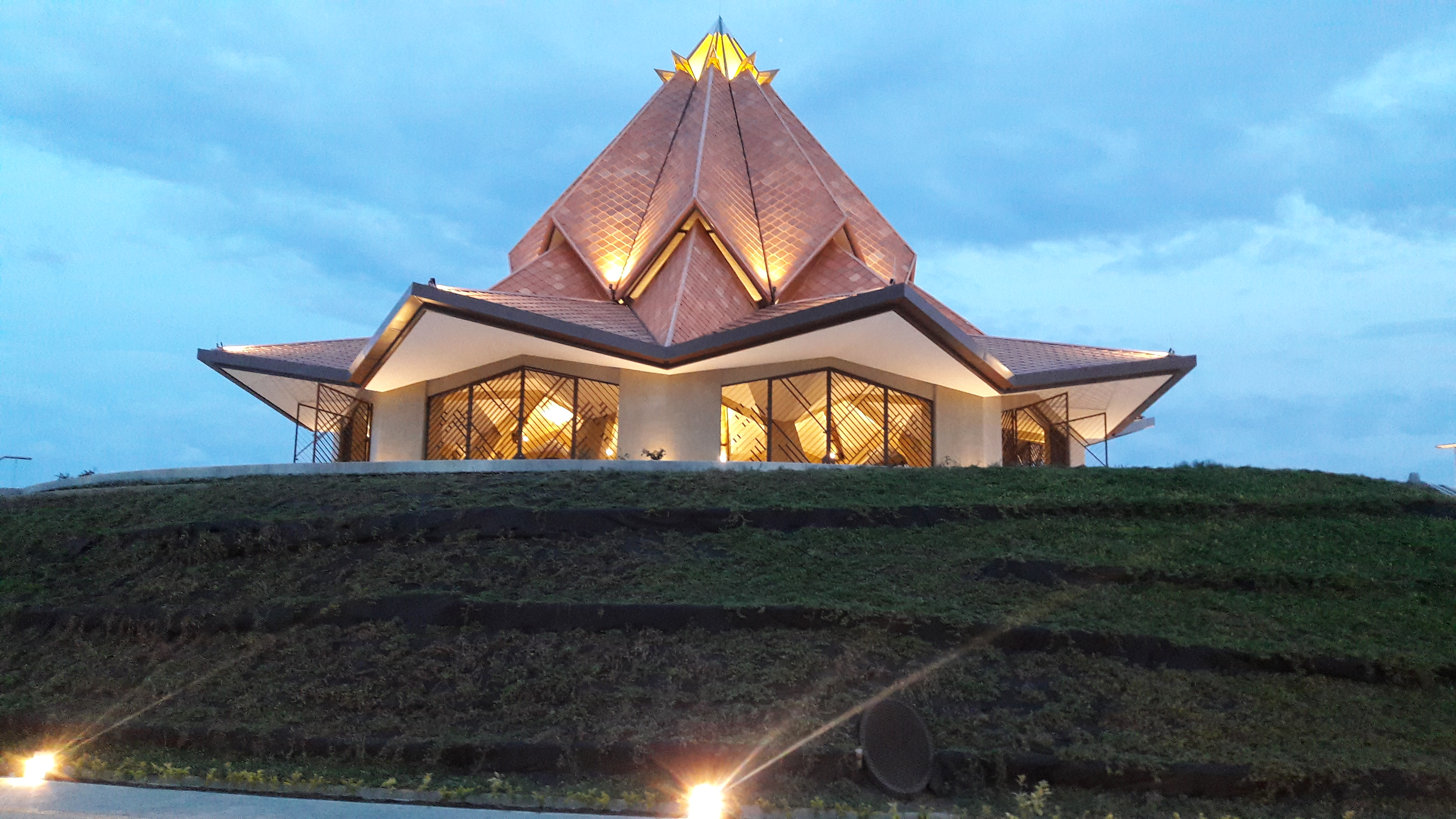 evening shot of house of worhsip with lights on